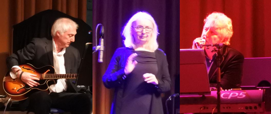 Slapp Happy (from the left, Peter Blegvad, Dagmar Krause, Anthony Moore) at the Weekend festival, Stadthalle Köln-Mülheim, Cologne, 26 November 2016